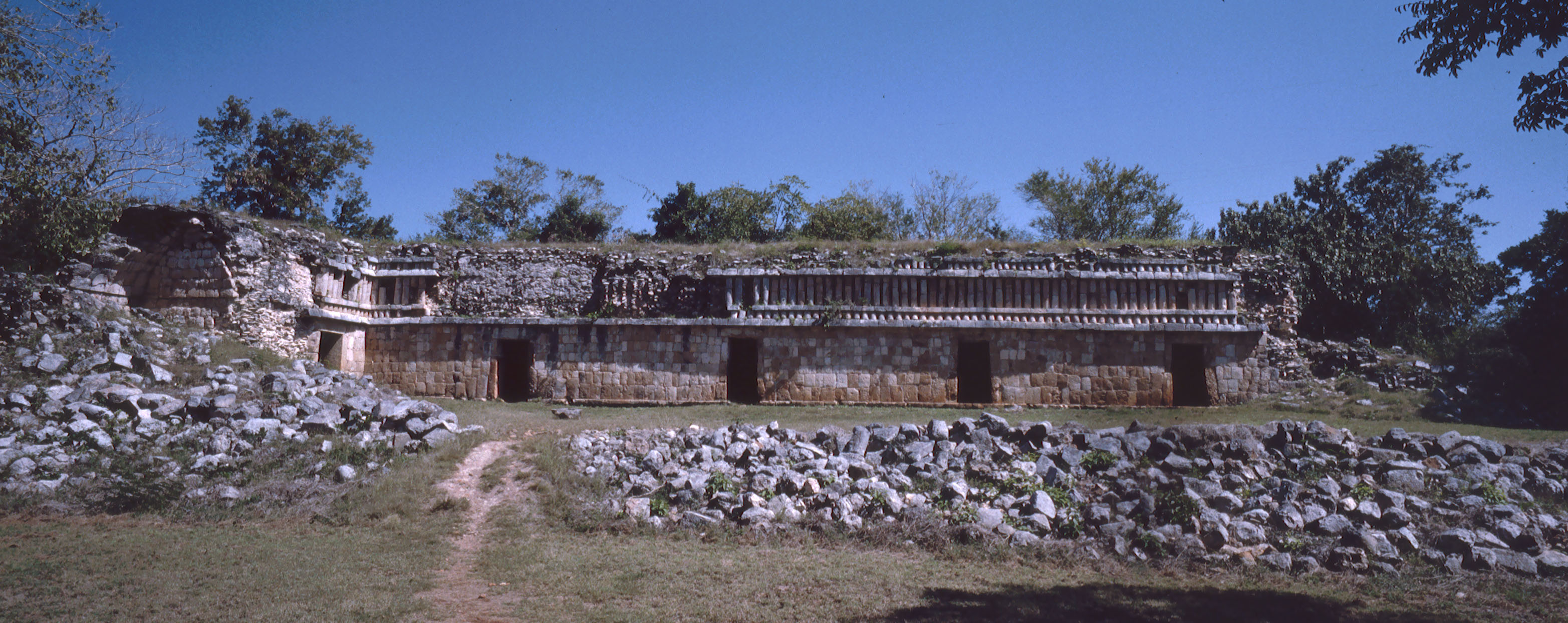 Labná, Yucatan, Mexico: building in "L"form.